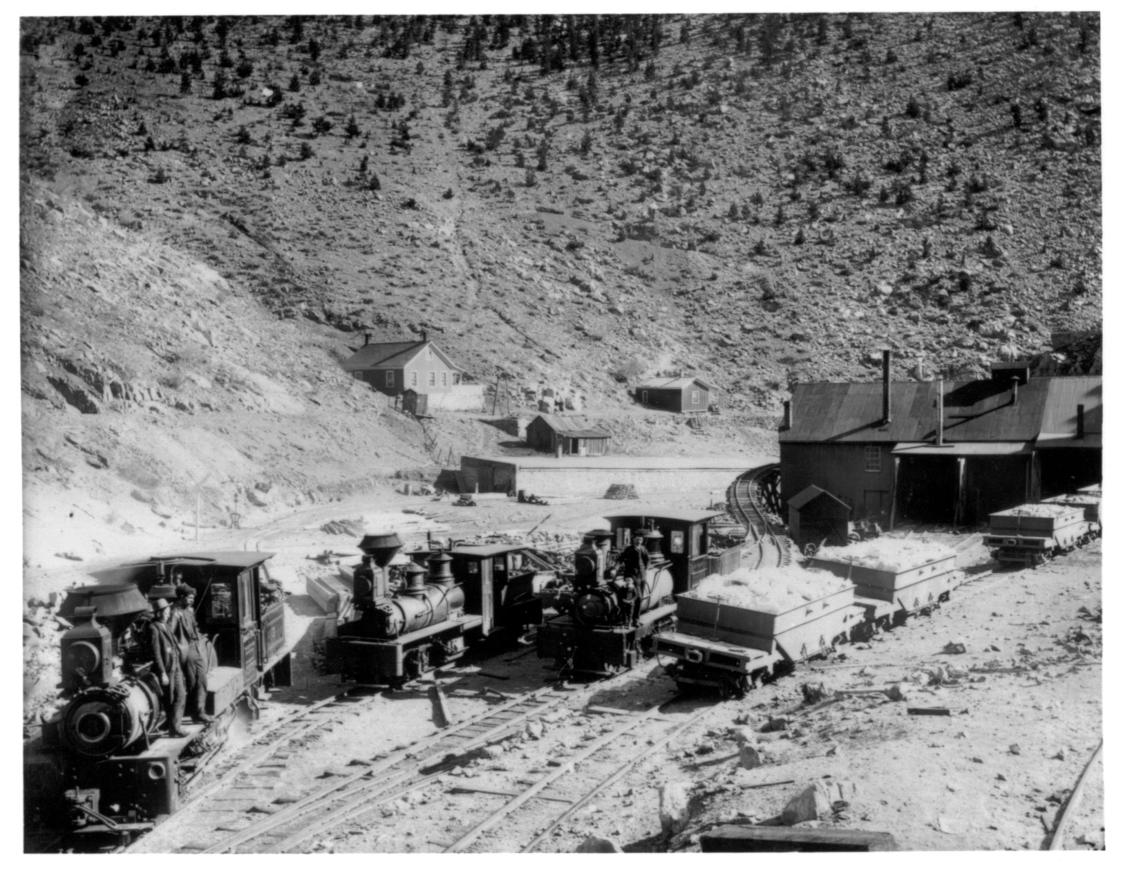 Gilpin Tramway engine house with 3 Shay locomotives and several ore cars (hopper cars). The long shed in the background is the warming house, where trainloads of ore could be thawed before unloading in cold weather.